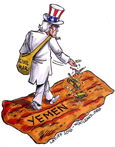 Yemeni Civil War